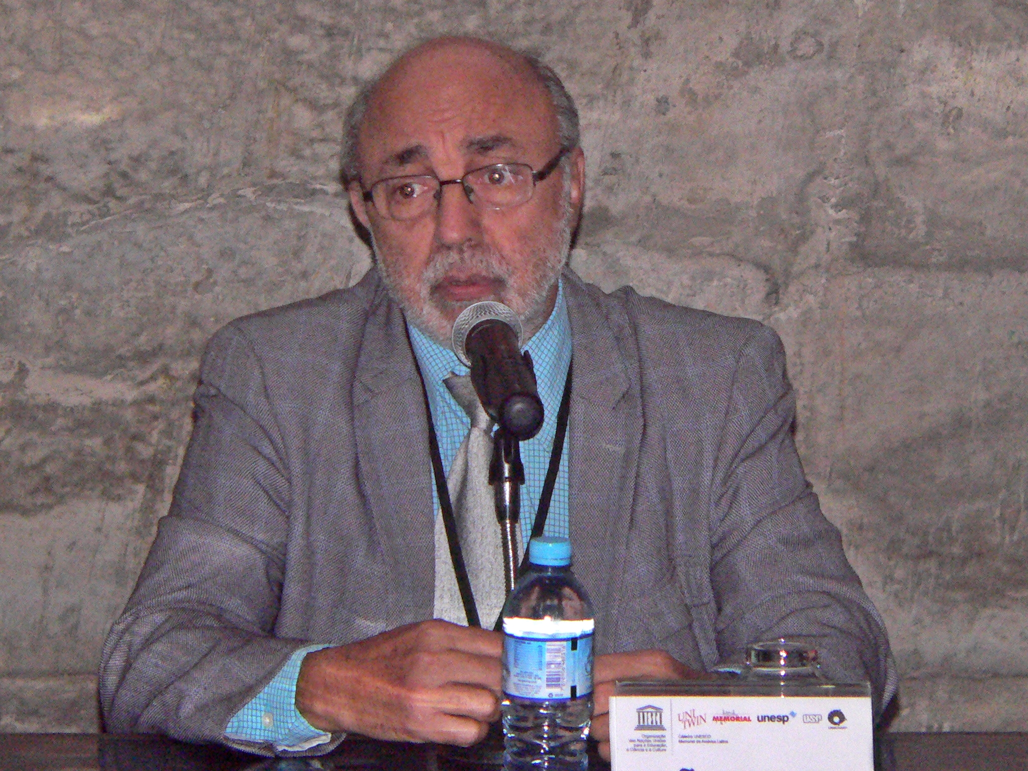 Brazilian film director and screenwriter João Batista de Andrade introducing a free class at the Memorial da América Latina in São Paulo, Brazil.